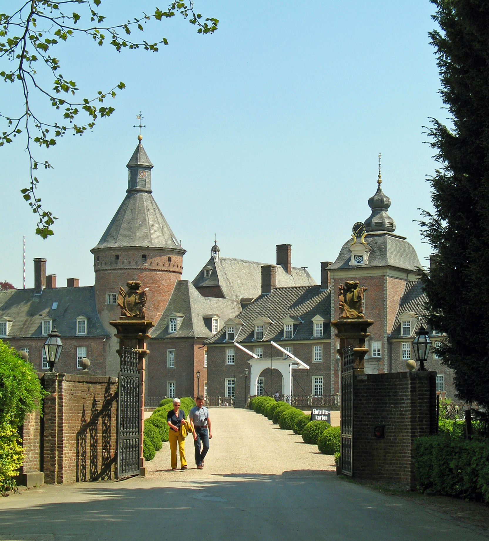 Isselburg (Germany): Anholt castle